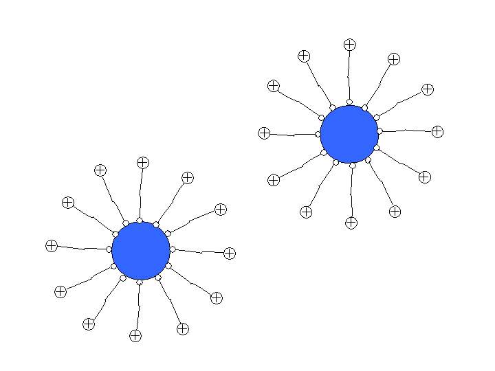 Visualization of electrosteric dispersing agents